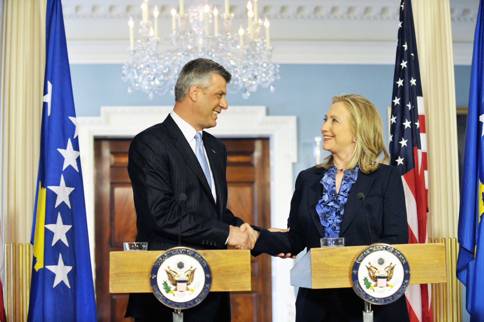 U.S. Secretary of State Hillary Rodham Clinton meets with Kosovan Prime Minister Hashim Thaci at the U.S. Department of State in Washington, D.C., on April 4, 2012. [State Department photo/ Public Domain]